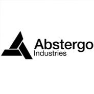 This is logo of Abstergo Industries.